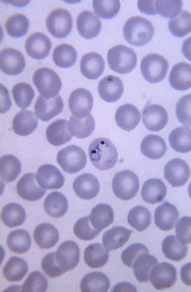 A vérifier plos Page de licence de Plos Origine: Page web d'origine Thin Film Micrograph Showing a Red Blood Cell Containing Two Ring-Form P. vivax Parasites P. vivax rings have a large quantity of cytoplasm and a large chromatin dot, as well as occasional pseudopods. The red blood cells are normal, to 1.5Å normal, sized, round, and contain fine Schüffner's dots, and they quite often contain multiple parasites. (Photograph: CDC/Dr Mae Melvin) From: Icke G, Davis R, McConnell W (2005) Teaching Health Workers Malaria Diagnosis. PLoS Med 2(2): e11.